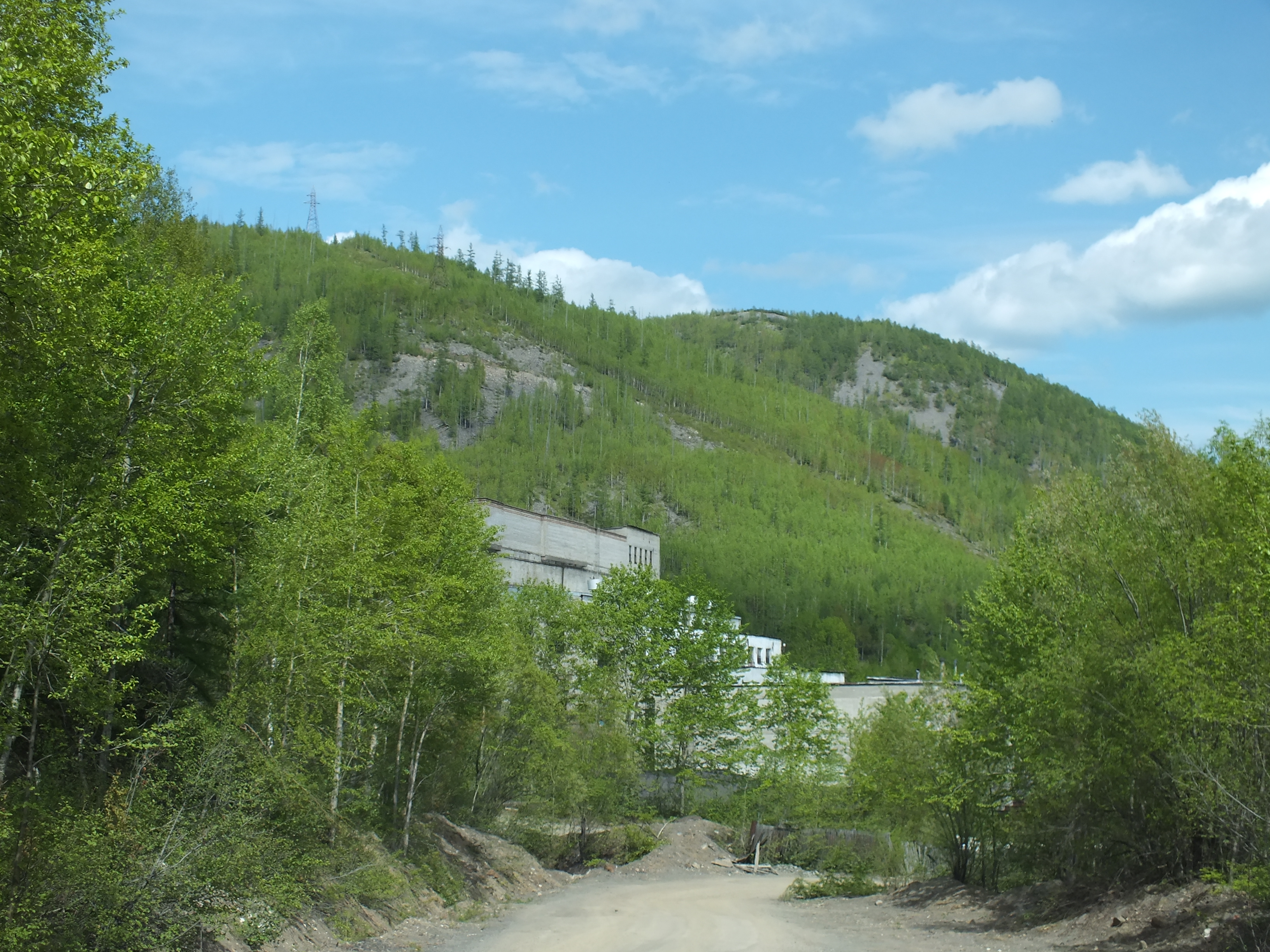 Gorniy Solnechniy rayon Khabarovskiy kray